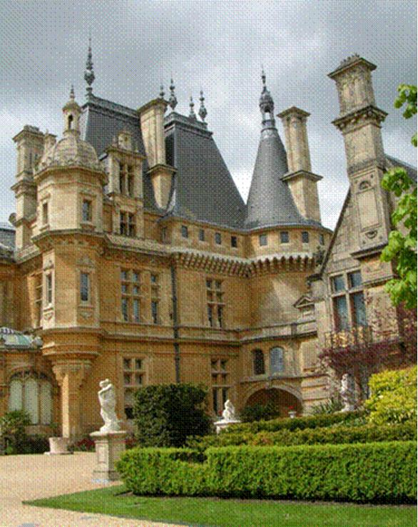 Towers of Waddesdon Manor